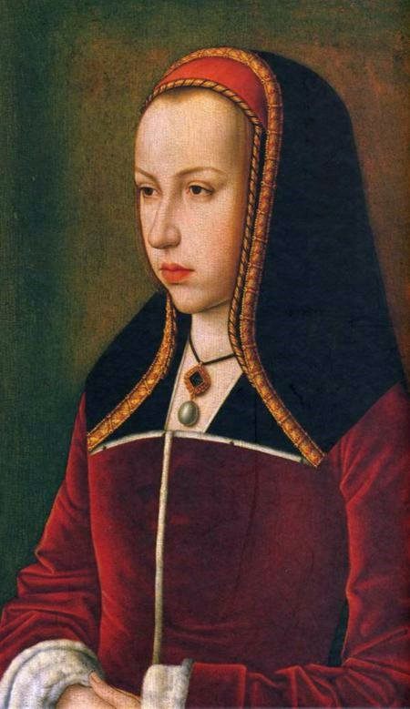 Marguerite d'Autriche (1480-1530) See also Portrait of Margaret of Austria (National Gallery) and Portrait of Margaret of Austria (Royal collection)